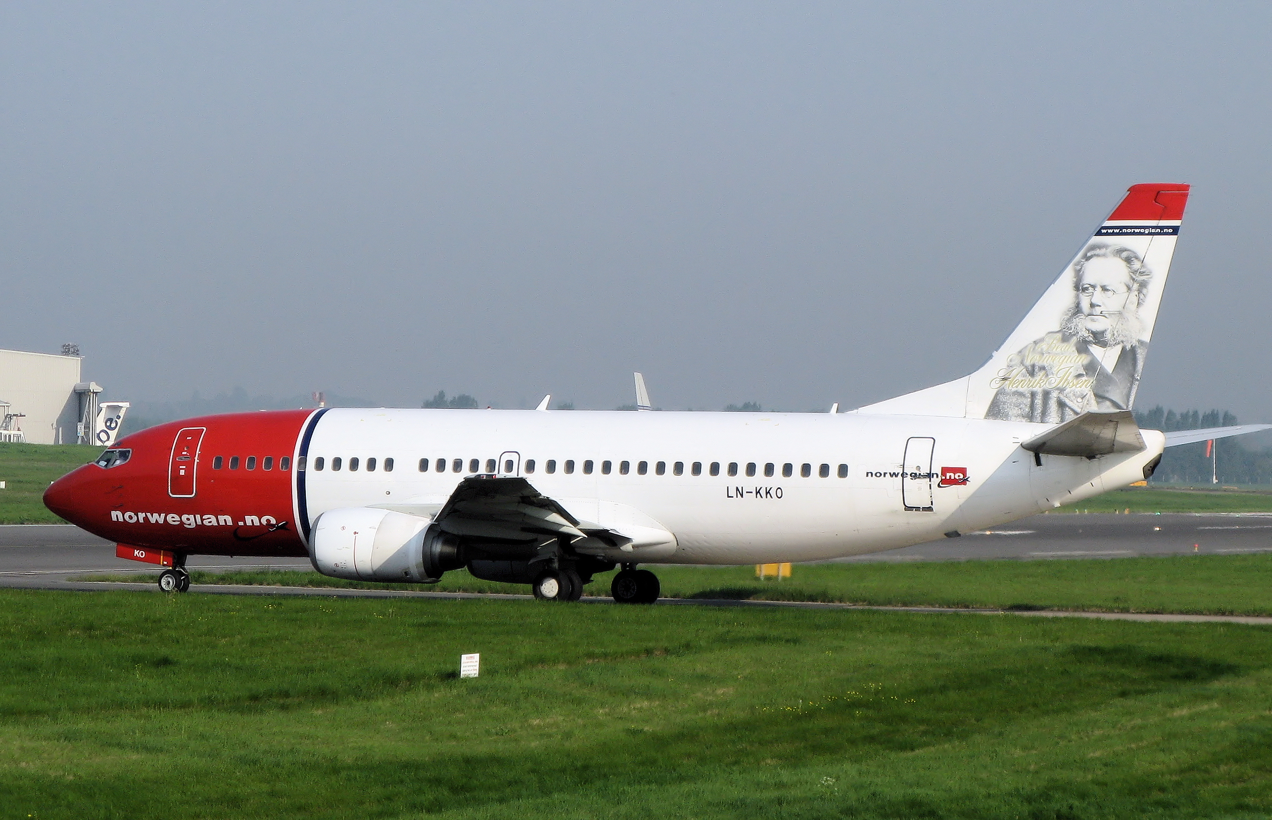 Norwegian Air Shuttle Boeing 737-300 (LN-KKO) taxis to the runway at Birmingham International Airport, England.